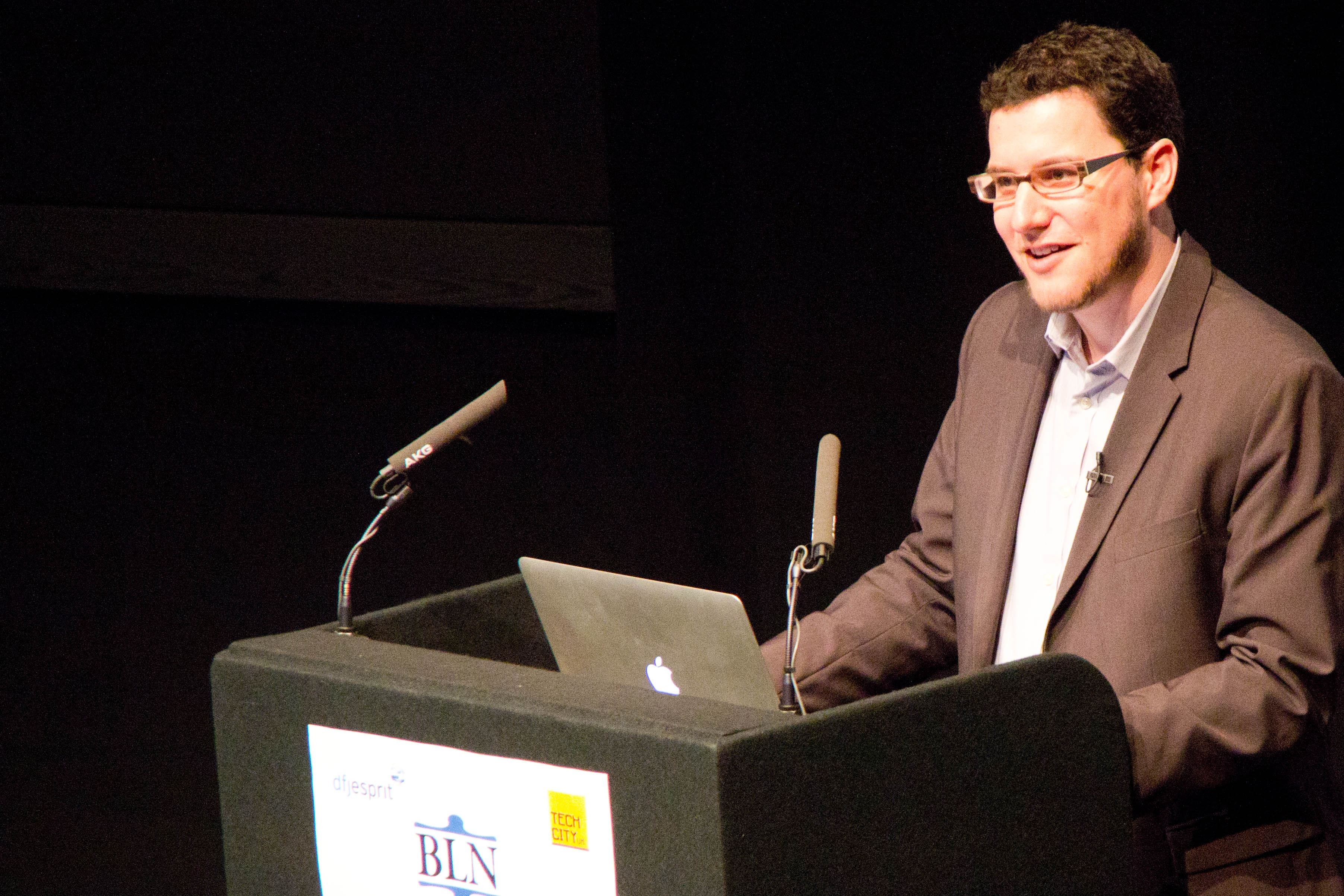 This is an image of Eric Ries at the London Lean Startup conference